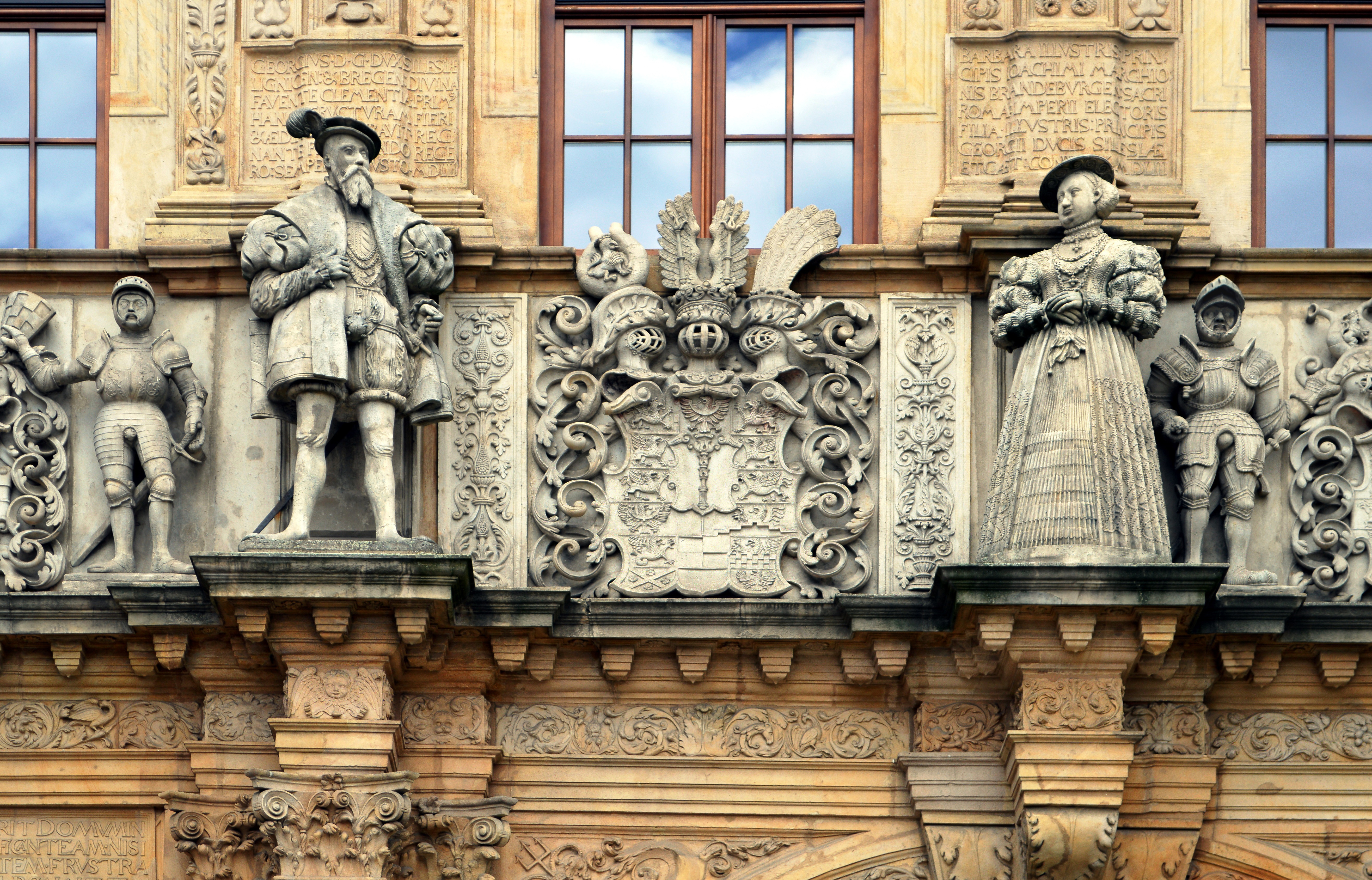 Brzeg is a town in southwestern Poland in the Opole District of Silesia; it is the capital of Brzeg County and is situated on the left bank of the River Oder. The town’s historic Brzeg Castle which has been rebuilt is also known as “The Castle of The Silesian Piasts” and “The Silesian Wawel”.